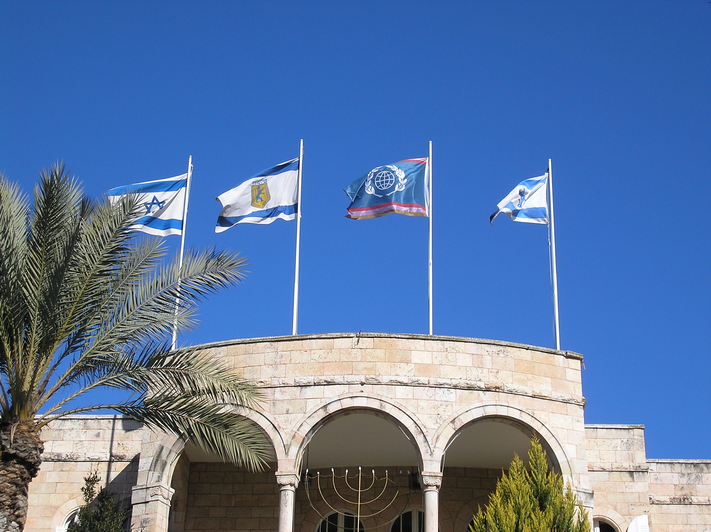 Vila Sherkessi, International Christian Embassy Jerusalem